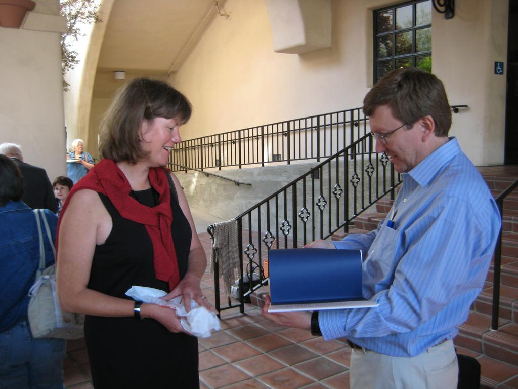 Ken Libbrecht signs his book The Snowflake: Winter’s Secret Beauty for Kathy after a fascinating lecture. This is the man behind the snowflake postage stamps you may have seen. The beautiful images started out as simply a way to study crystal structures. His talk touched on the dependence of showflake structure on temperature and humidity, some of the history of the research project, scientific motivations, and of course the popular side effects, which have led to several published books. For more